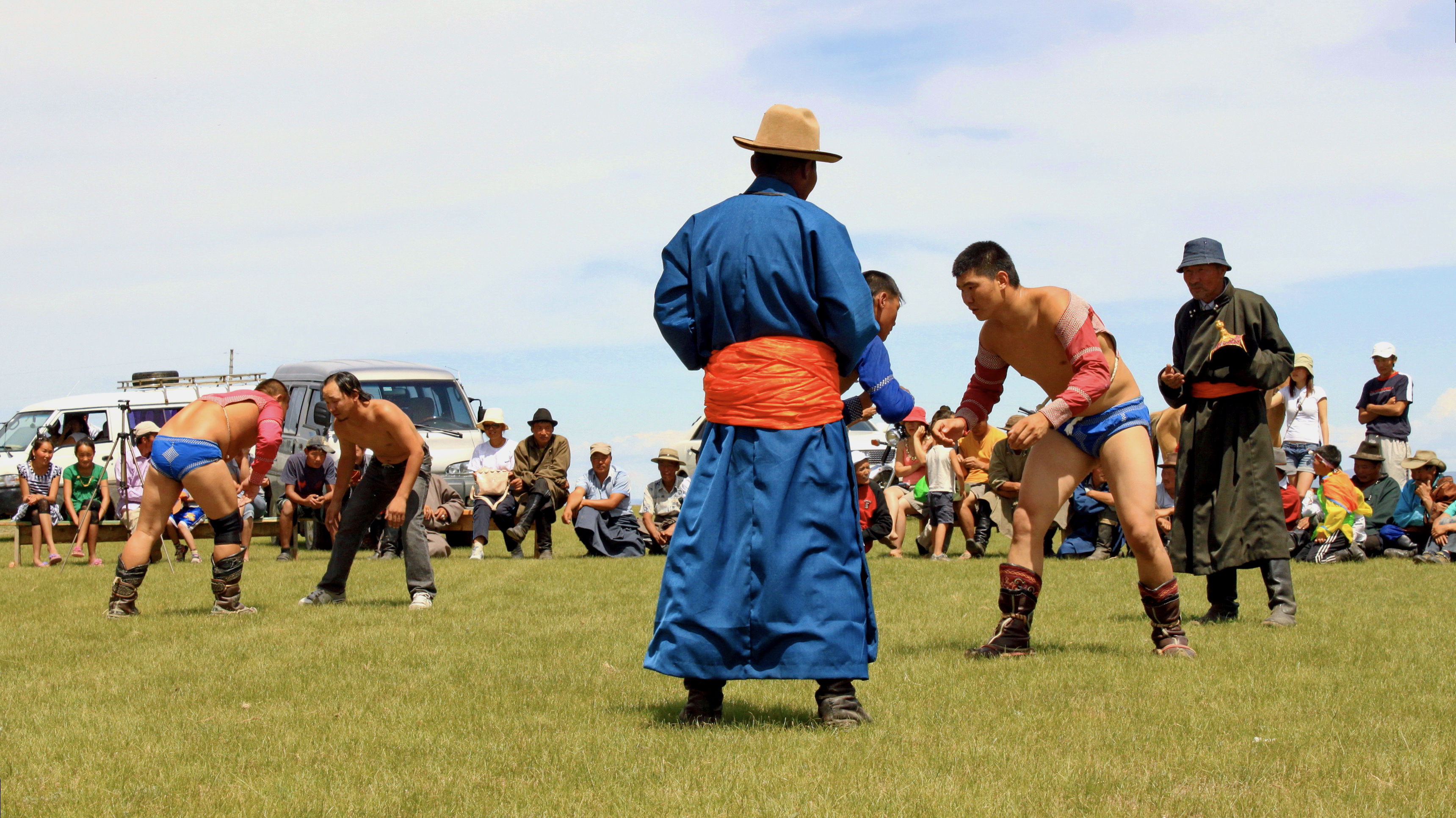 Traditional Mongolian wrestling during the local Naadam festival. Kharkhorin, Övörkhangai Province, Mongolia.